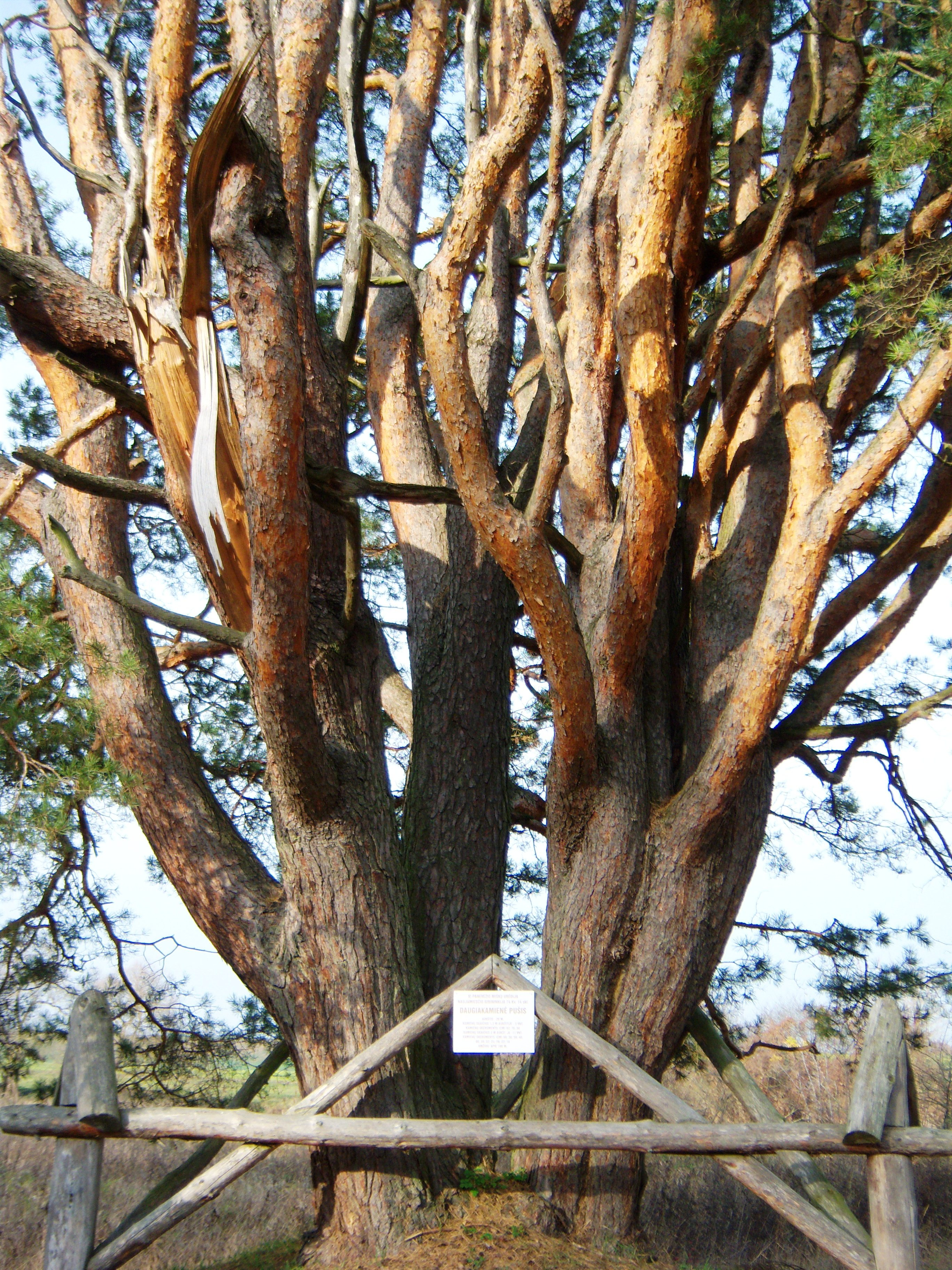 Pine tree with many trunks in Kalnelis, Panevėžys District, Lithuania